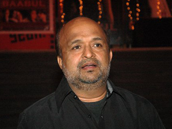 Indian film lyricist Sameer